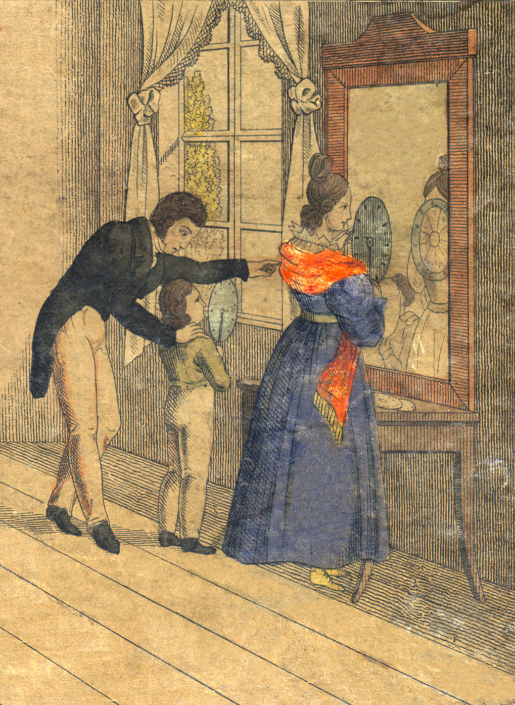 A woman looking in the mirror through the slits of a Magic Disk (detail of illustration by E. Schule on the label of a Magic Disk - Disques Magiques box set, circa 1833)